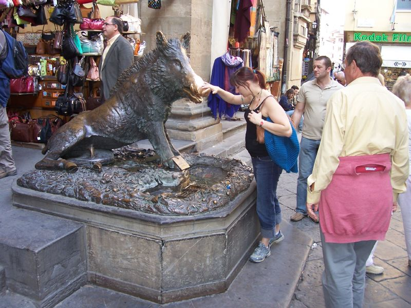 Florence. The fountain of the so-called "Porcellino" ("little pig", XVIIth century sculptor: Pietro Tacca, 1577-1640), fine bronze statue copy of an ancient Greek work.Florence Street Scenes 1